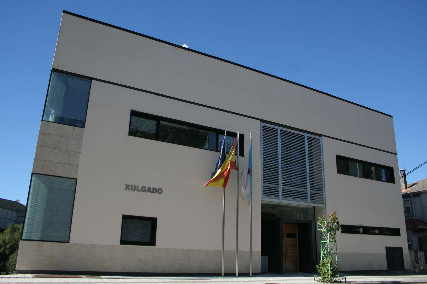 Courthouse in Bande (Spain)